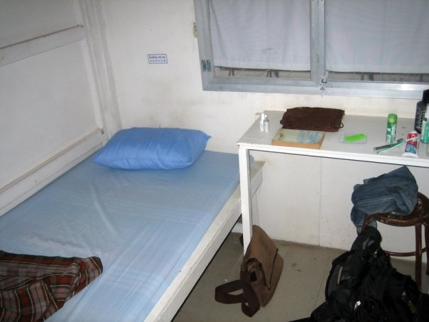 A room in the Prachenburi Vipassana Meditation Center, Thailand